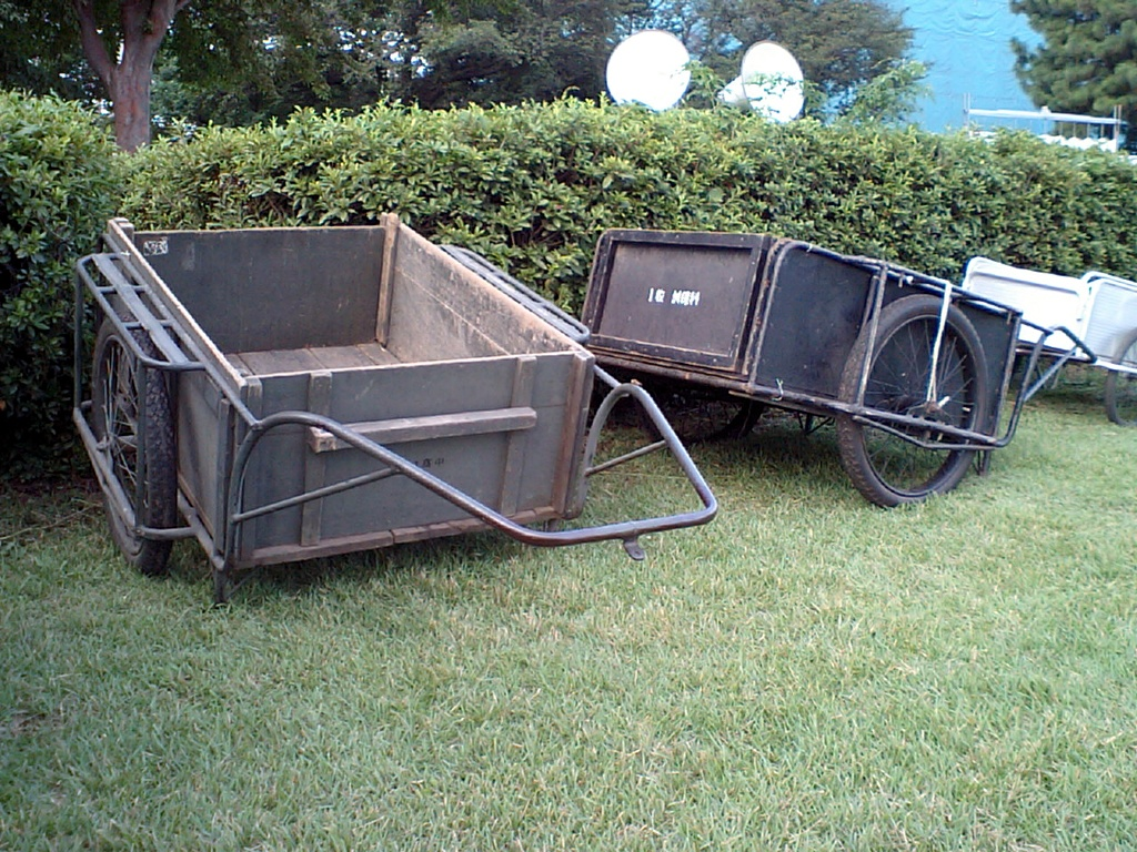 Japan Ground Self-Defence force's rearcars in Camp Shimoshizu.